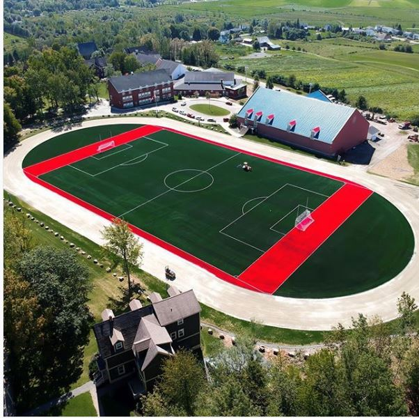 Canada’s safest and best new artificial turf field is now ready for play! FIFA and World Rugby certified, this field represents the very latest in turf technology, including a full field concussion pad underneath.